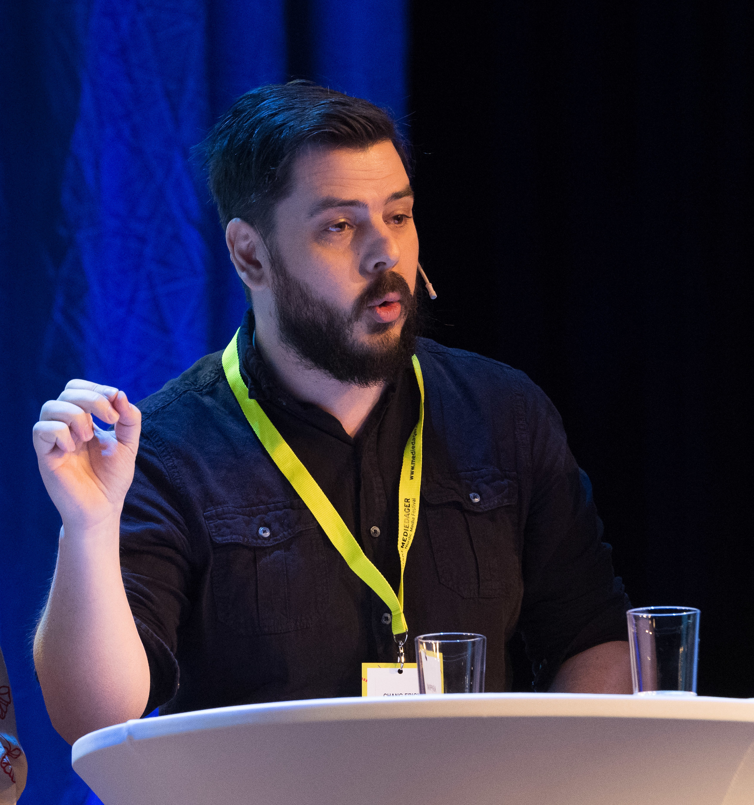 Swedish newspaper editor Chang Frick at the 2019 Nordic Media Festival in Bergen, Norway.